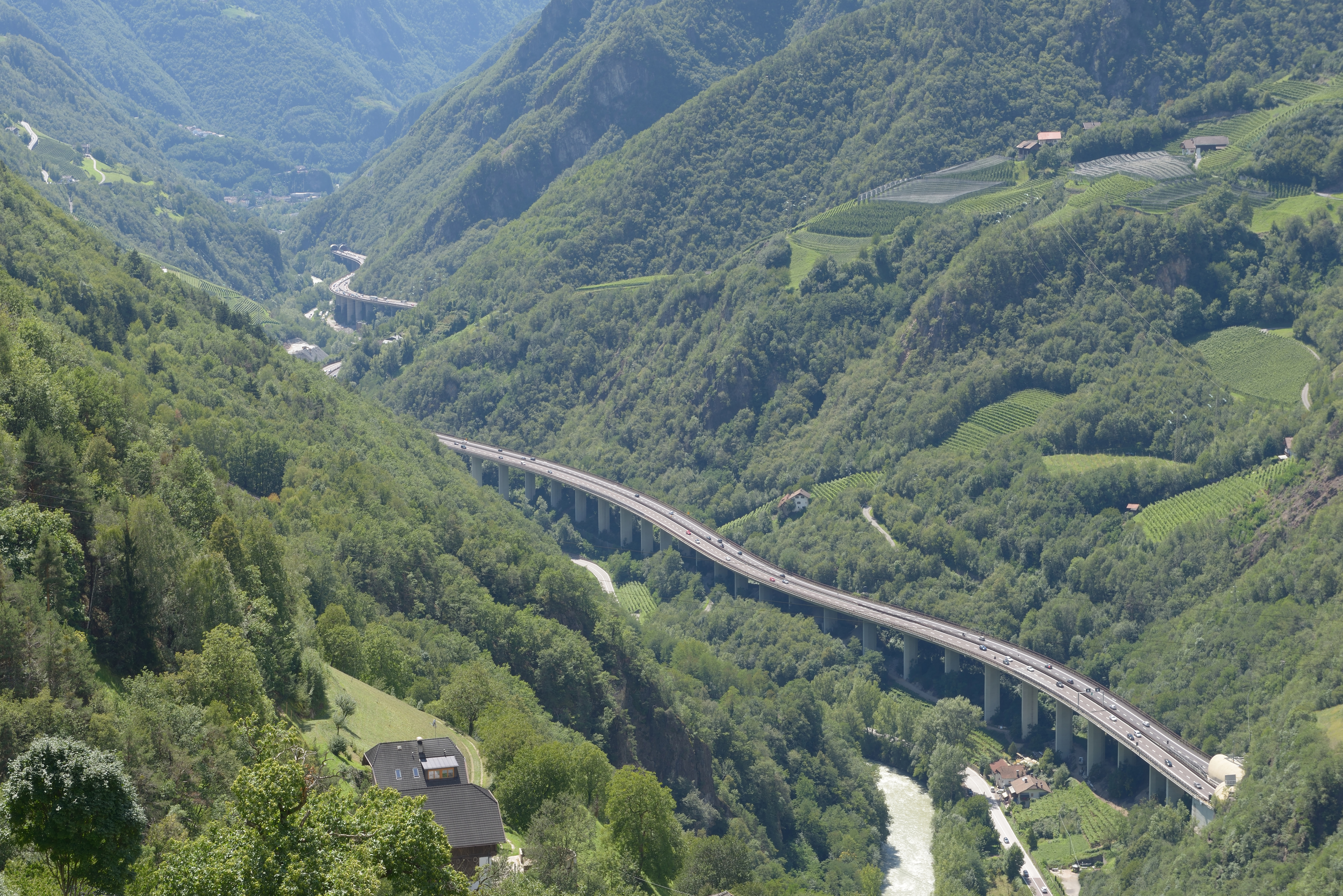 The Eisack valley and the A22 motorway Völser Ried, South Tyrol.